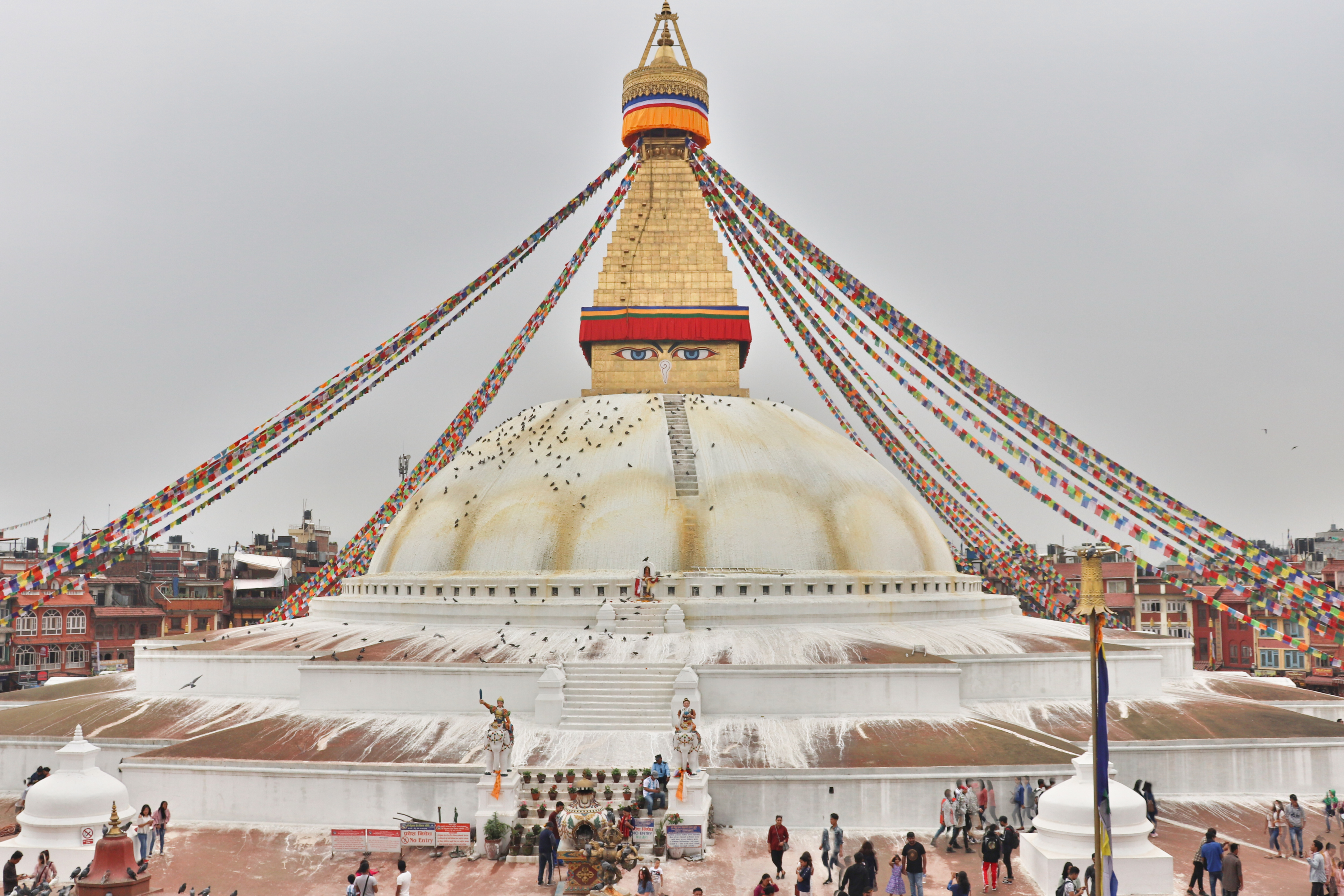 Boudhanath (Nepali: बौद्धनाथ, also called the Khāsa Caitya, Newari Khāsti, Standard Tibetan Jarung Khashor, Wylie: bya rung kha shor) is a stupa in Kathmandu, Nepal. Located about 11 km (6.8 mi) from the center and northeastern outskirts of Kathmandu, the stupa's massive mandala makes it one of the largest spherical stupas in Nepal. नेपाली: बौद्धनाथ (वयली: bya-rung-kha-shor, ज्यरुङ खशोर) काठमाडौं शहरको पूर्वी भागमा अवस्थित प्रसिद्ध बौद्ध स्तूप तथा तीर्थस्थल हो । यो स्तूप नेपालको सबैभन्दा ठूला गोलाकार भएको स्तूप हो । सन् १९७९ देखि बौद्धनाथ युनेस्को विश्व सम्पदा क्षेत्र रहेको छ। स्वयम्भूनाथ सँग सँगै बौद्धनाथ पनि काठमाडौको सबैभन्दा बढि पर्यटकहरूले हेर्ने स्थान मध्ये एक रहेको छ। विशेष गरी यस चैत्यको इतिहास प्राचीन तिब्बती बौद्ध सम्प्रदाय अथवा ञिङमा सम्प्रदाय साथ सम्बन्धित भएकोले यसको बारे ञिङमा सम्प्रदायको धर्म इतिहास तथा लेख रचना र ग्रन्थहरूमा व्याख्या गरिएको पाईन्छ।